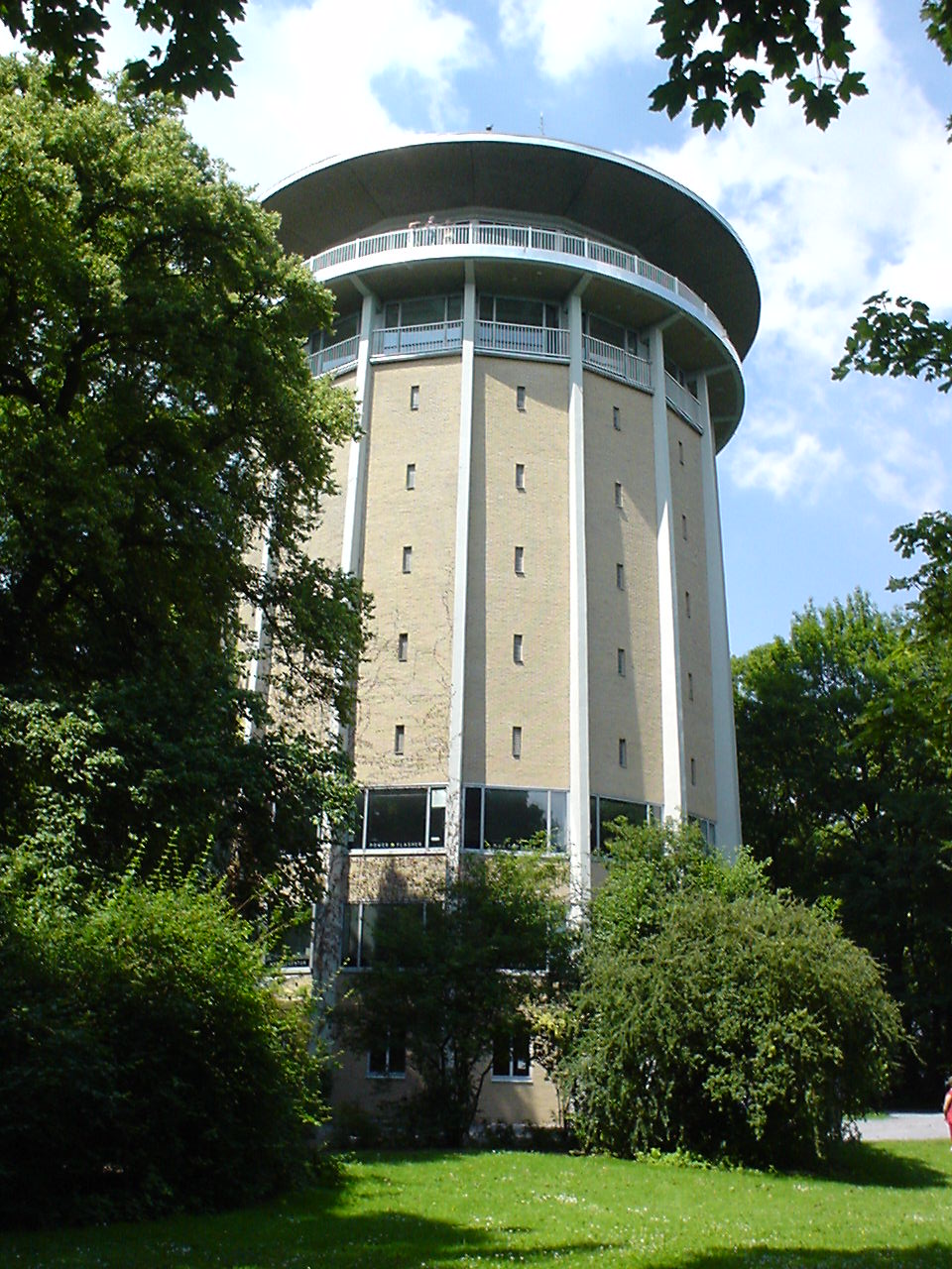 Water tower Belvedere on the Lousberg hill, Aachen, Germany. Photo taken by User:Ahoerstemeier on July 10 2005.